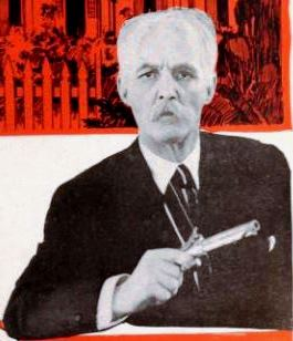 Detail from an advertisement for the American drama film The Kentucky Colonel (1920) with Frederick Vroom, from the insert after page 10 of the October 2, 1920 Exhibitors Herald.